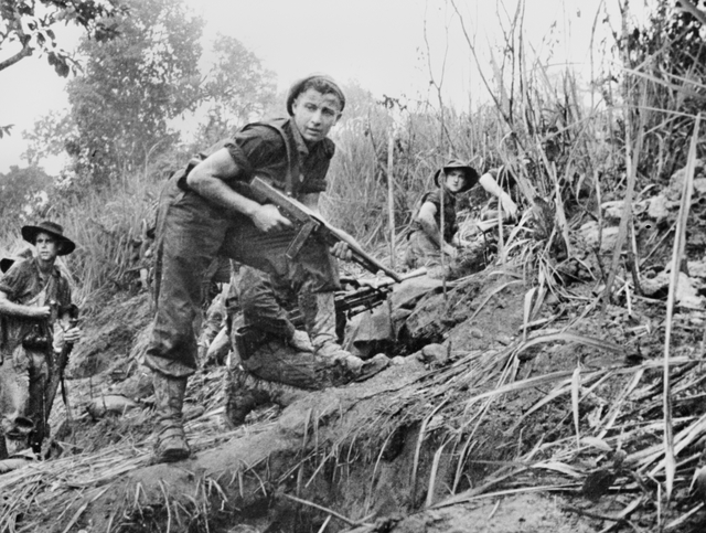 Australian commandos from the 2/3rd Independent Company shortly before making an attack on Timbered Knoll in the Salamaua Area of New Guinea. Private L C Mahon of 2/3rd Independent Company carries his gun in readiness for a commando assault. (Filmed by AIF cameraman Damien Parer. Frame enlargement taken from film number F01866.)